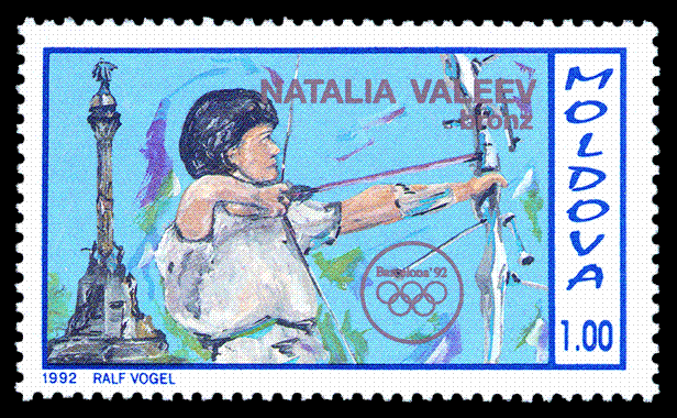 Stamp of Moldova